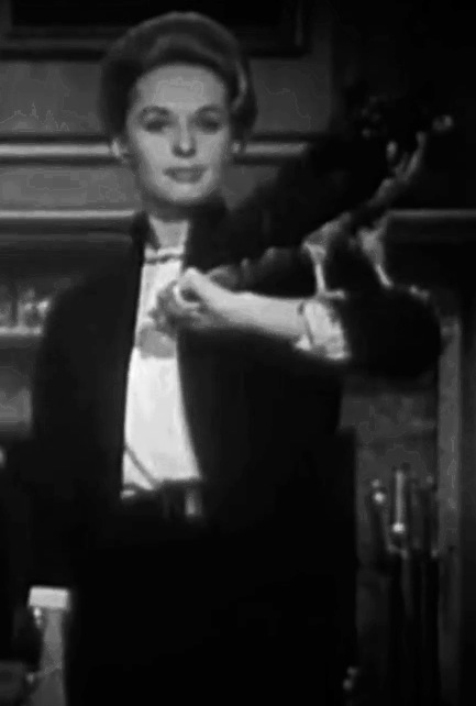 Tippi Hedren in Hitchcock's "The Birds" teaser.